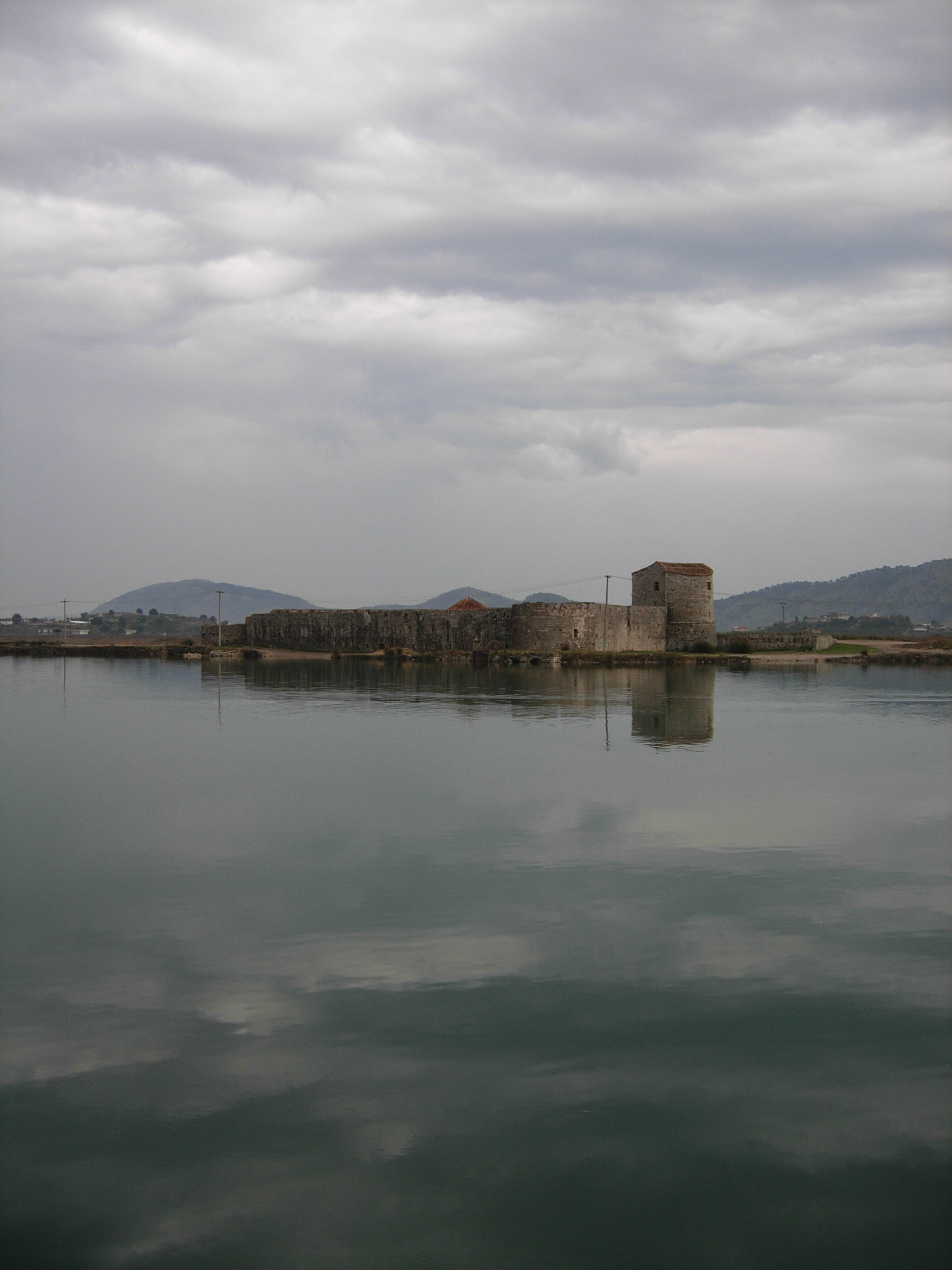 Butrint, Albania: Vivari Channel and Triangular Fortress